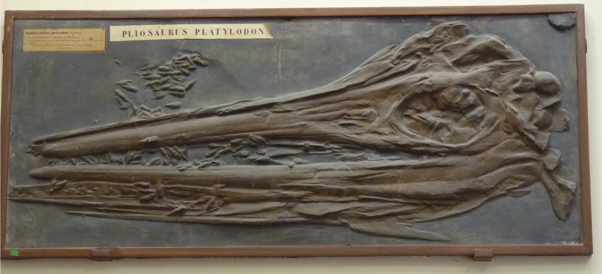 Skull of Temnodontosaurus platyodon (formerly Ichthyosaurus/Pliosaurus platylodon), an ichthyosaur from the german Early Jurassic. Museo Geologico Giovanni Capellini, Bologna (Italy).